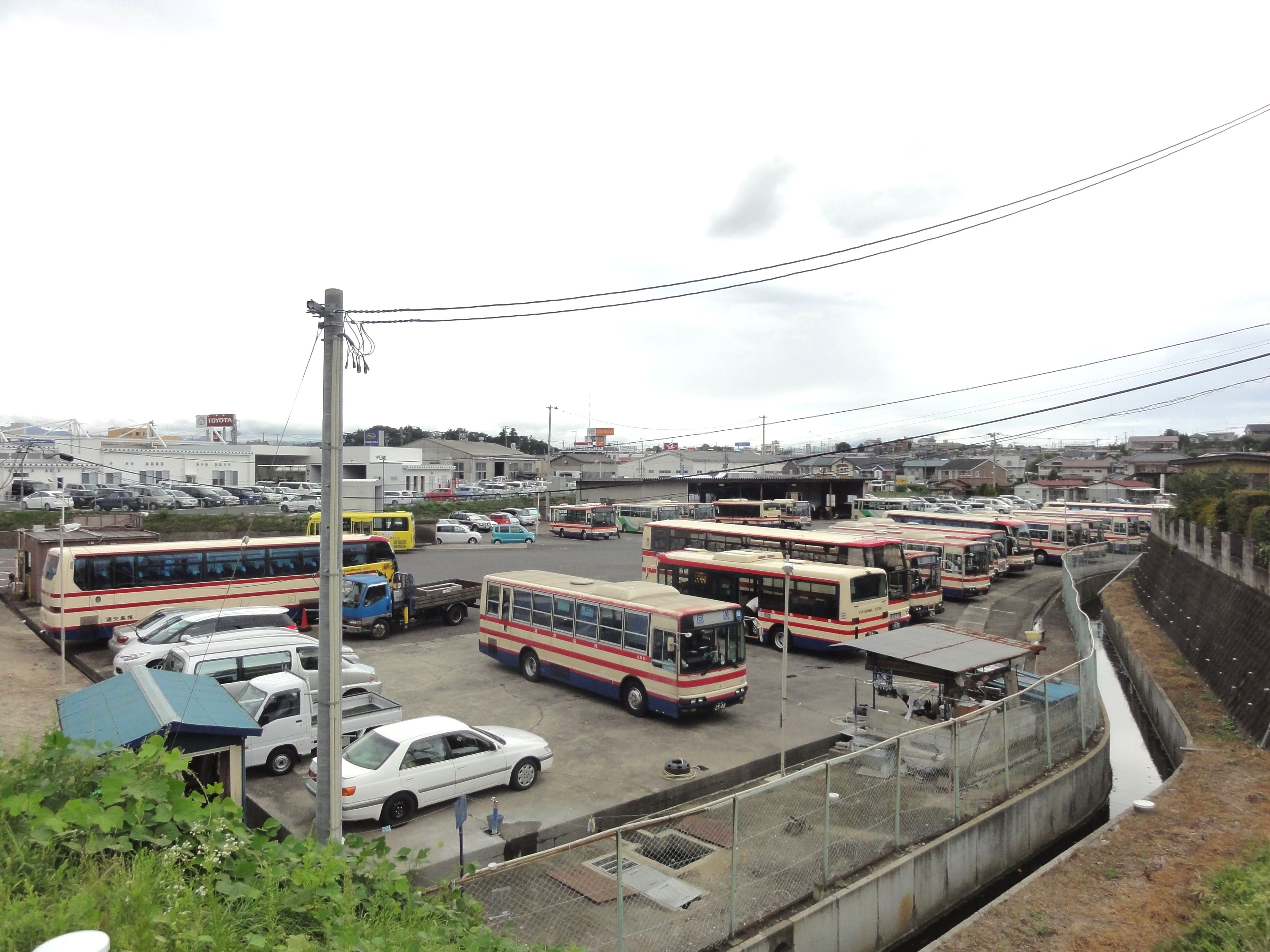 Fukushima Transportation Sukagawa Depot